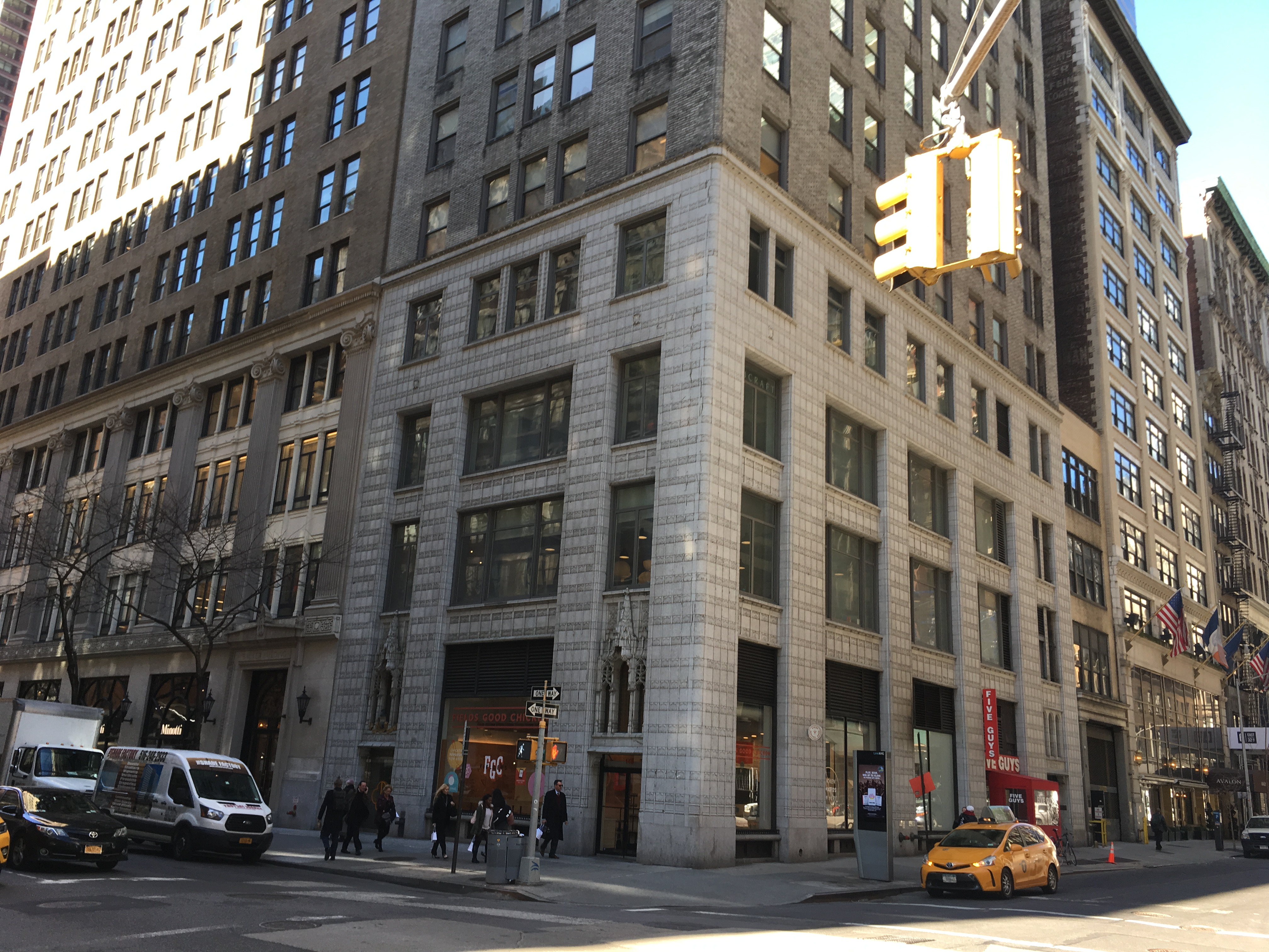 During much of the 1980s, the offices of Advanced Computer Techniques (ACT), an historically important independent, middle-sized computer software company of its era, were located at 32nd Street and Madison Avenue in Manhattan in New York City. One entrance was in the building at the far right, 16 East 32nd Street, while the other entrance was in the Backer Building at the far left, 136 Madison Avenue. The two buildings adjoined with connecting passage at the rears. ACT and its subsidiary Creative Socio-Medics occupied parts of the second through fifth floors of the buildings.